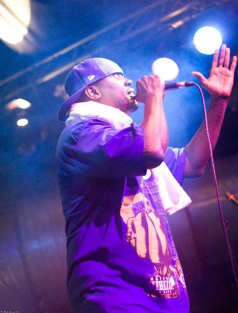 One of Africa's greatest lyricist during a heated performance